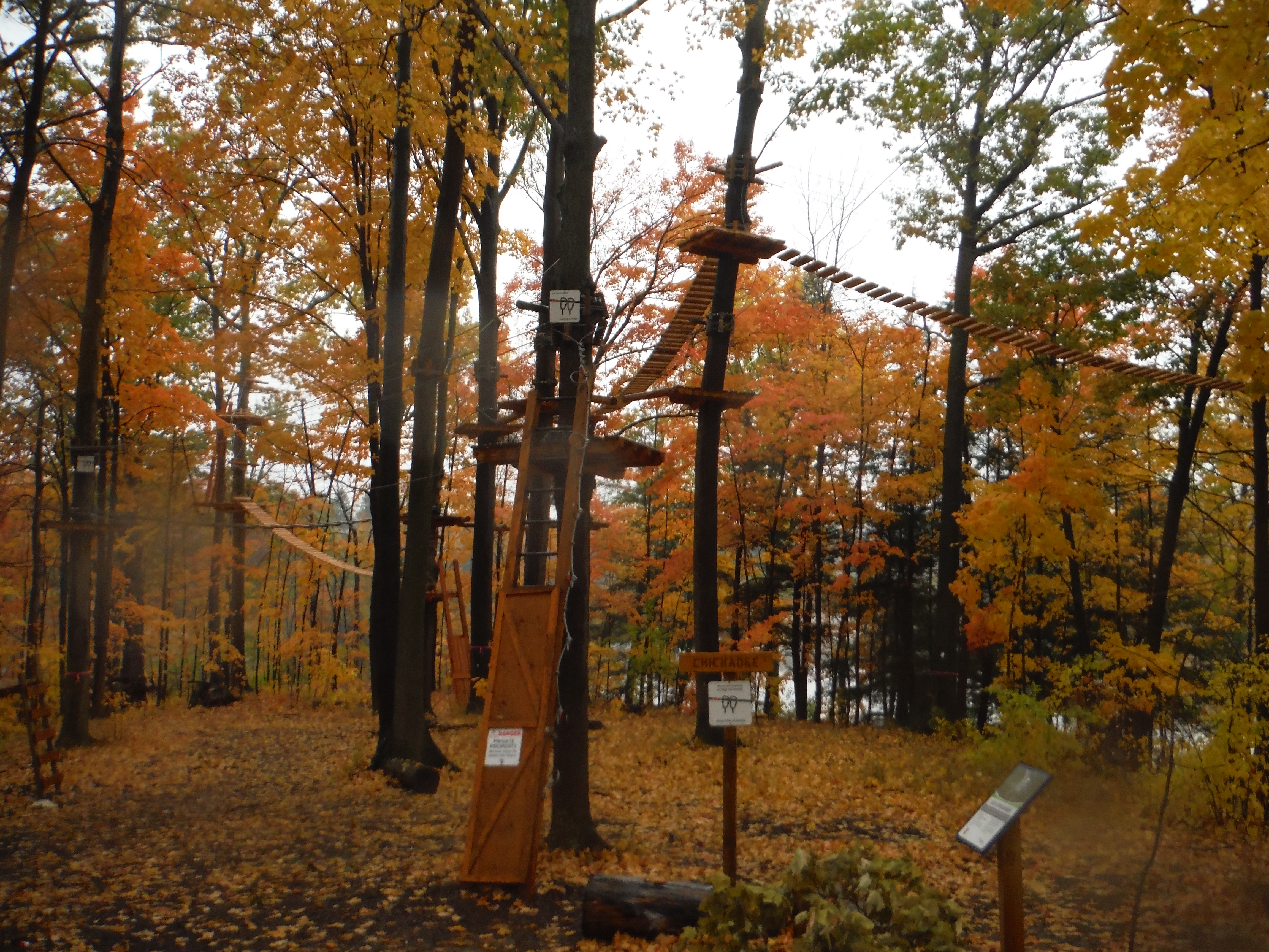 Heart Lake treetop Walk, Brampton Ontario, Canada